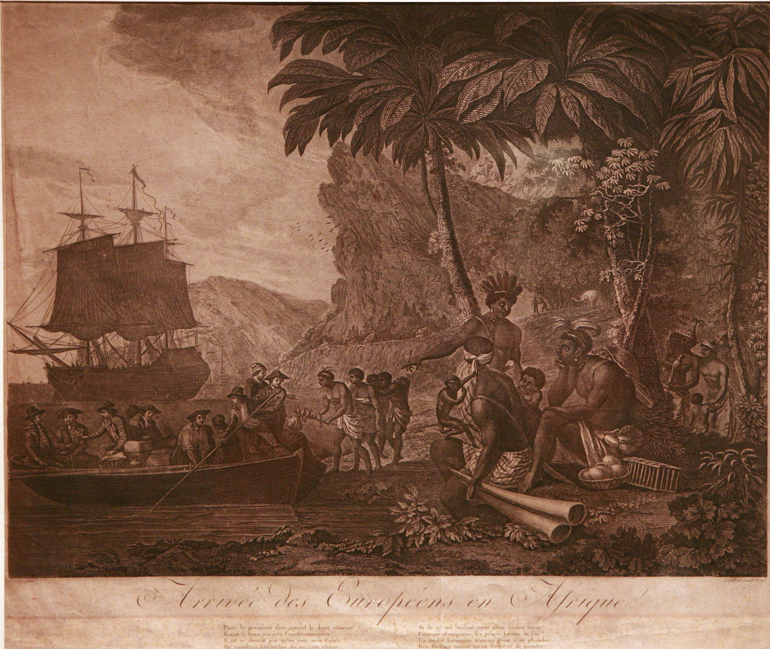 Arrival of Europeans in Africa, by Nicolas Colibert (1750 - after 1806) Engraving after a drawing by Amédée Fréret, Paris, 1795. made to celebrate the first abolition of slavery on 4 February 1794 (16 Pluviôse an II) On display at the Musée de la Compagnie des Indes in Port-Louis, accession number AF 6758